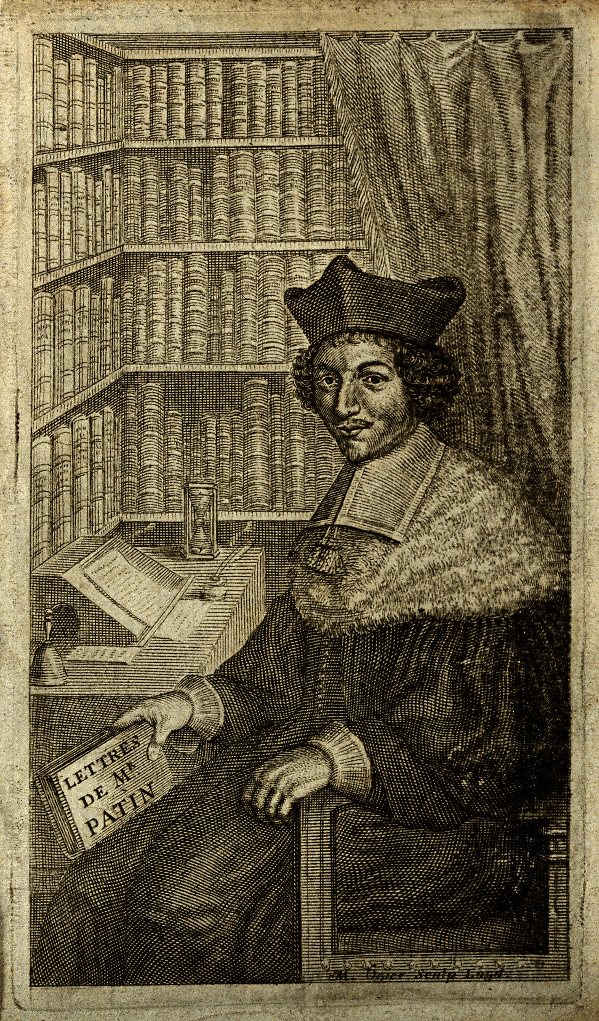 Guy Patin. Line engraving, 1710. Iconographic Collections Keywords: Guy Patin